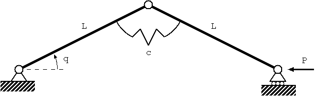 By Khurram Wadee, created using tgif.